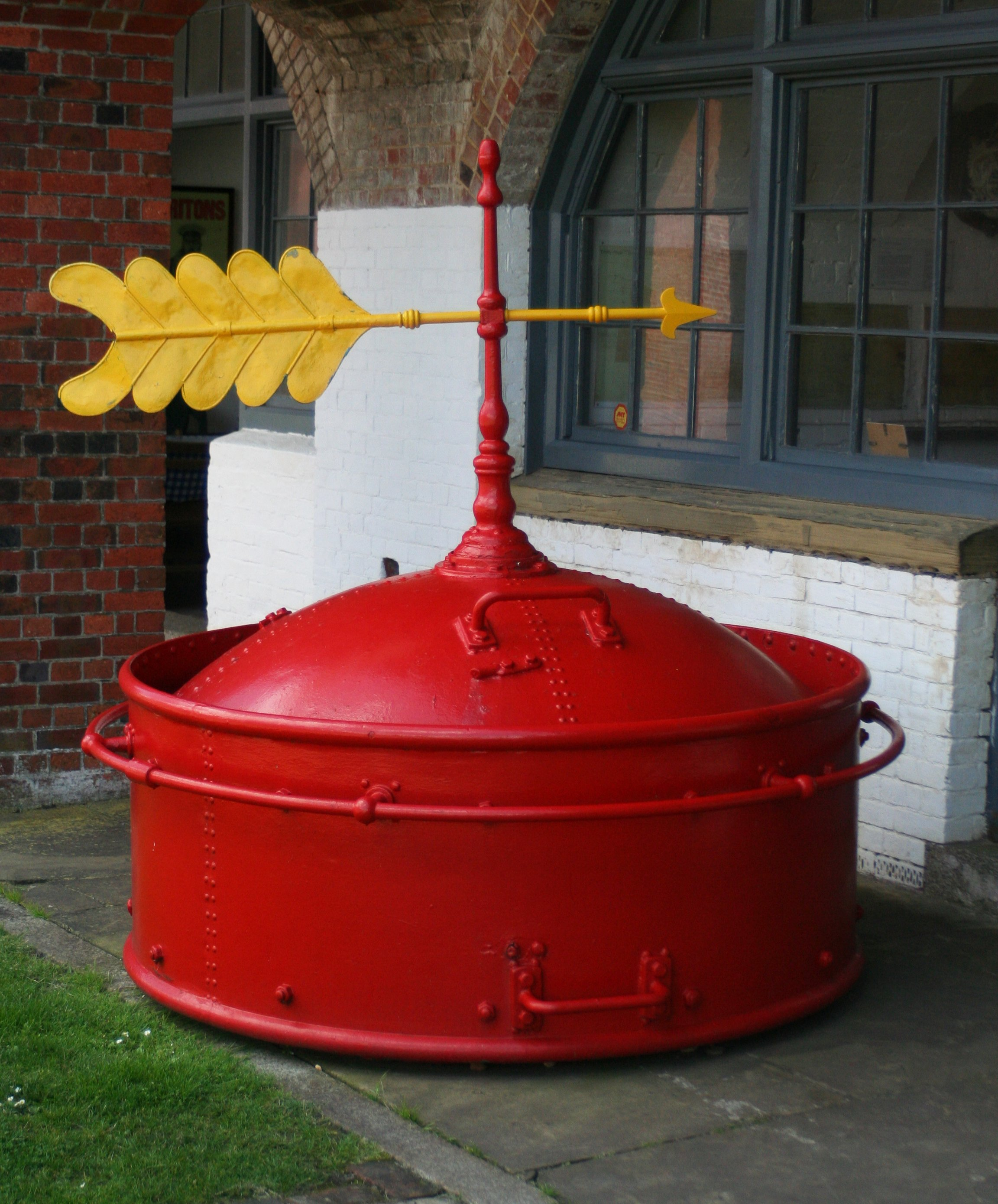 Ventilator and weathercock from the "1911 Low Light" at Hurst Castle. The ventilator removed acetylene gas fumes from the light. It was removed in 1997, when the light was decommissioned.